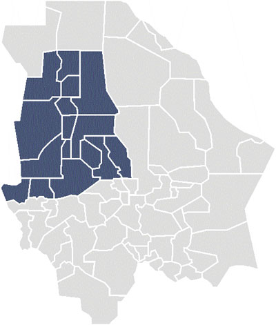 Map of the Seventh Federal Electoral District of the State of Chihuahua, México.